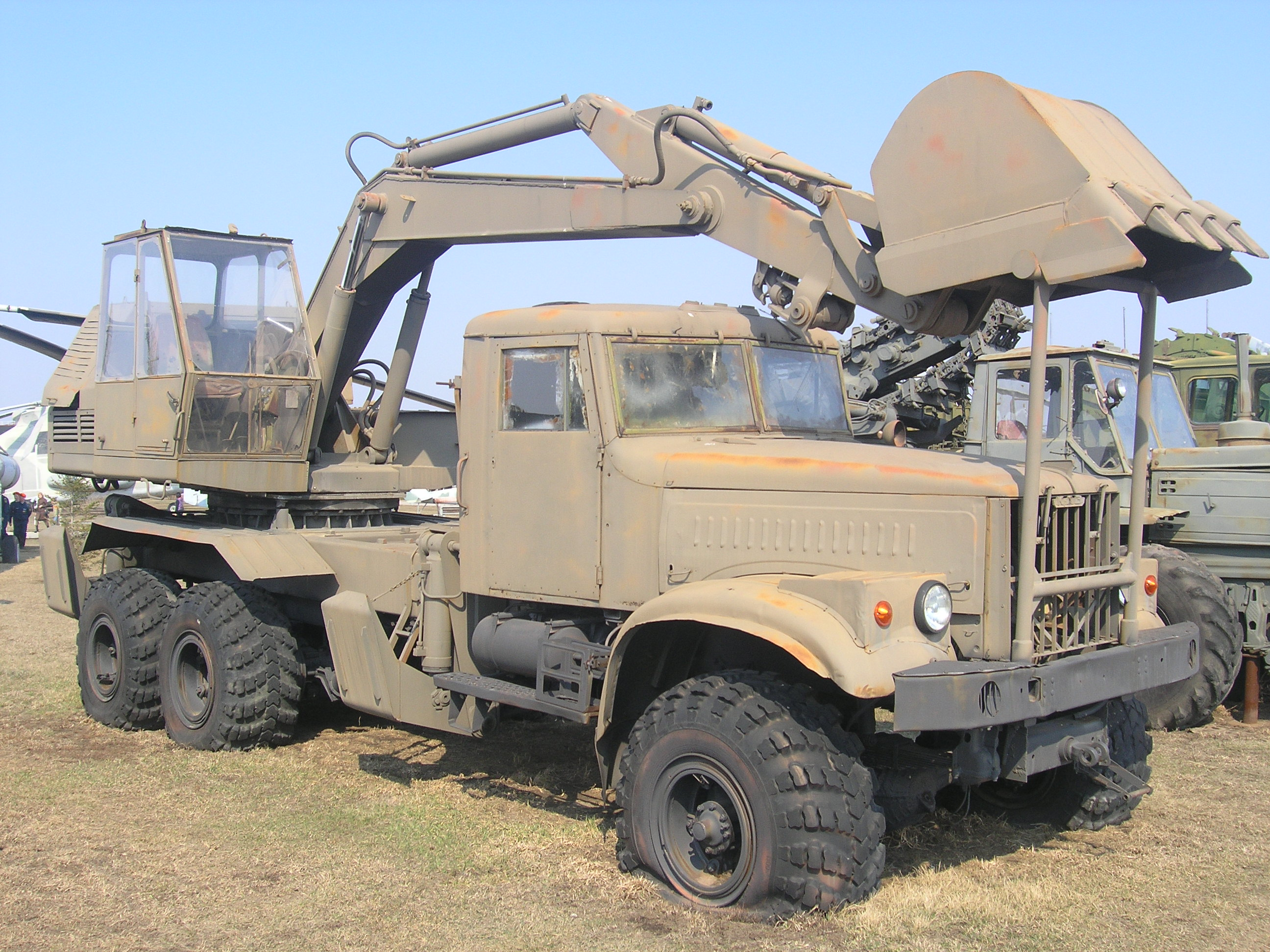 Soviet army excavator EOV-4421. Technical museum Togliatti